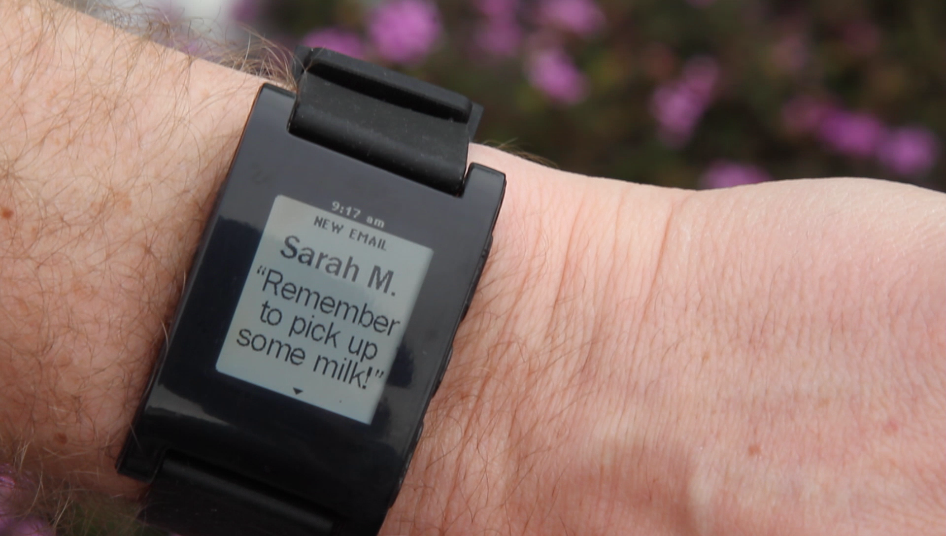 Pebble E-Paper Watch displaying email text.